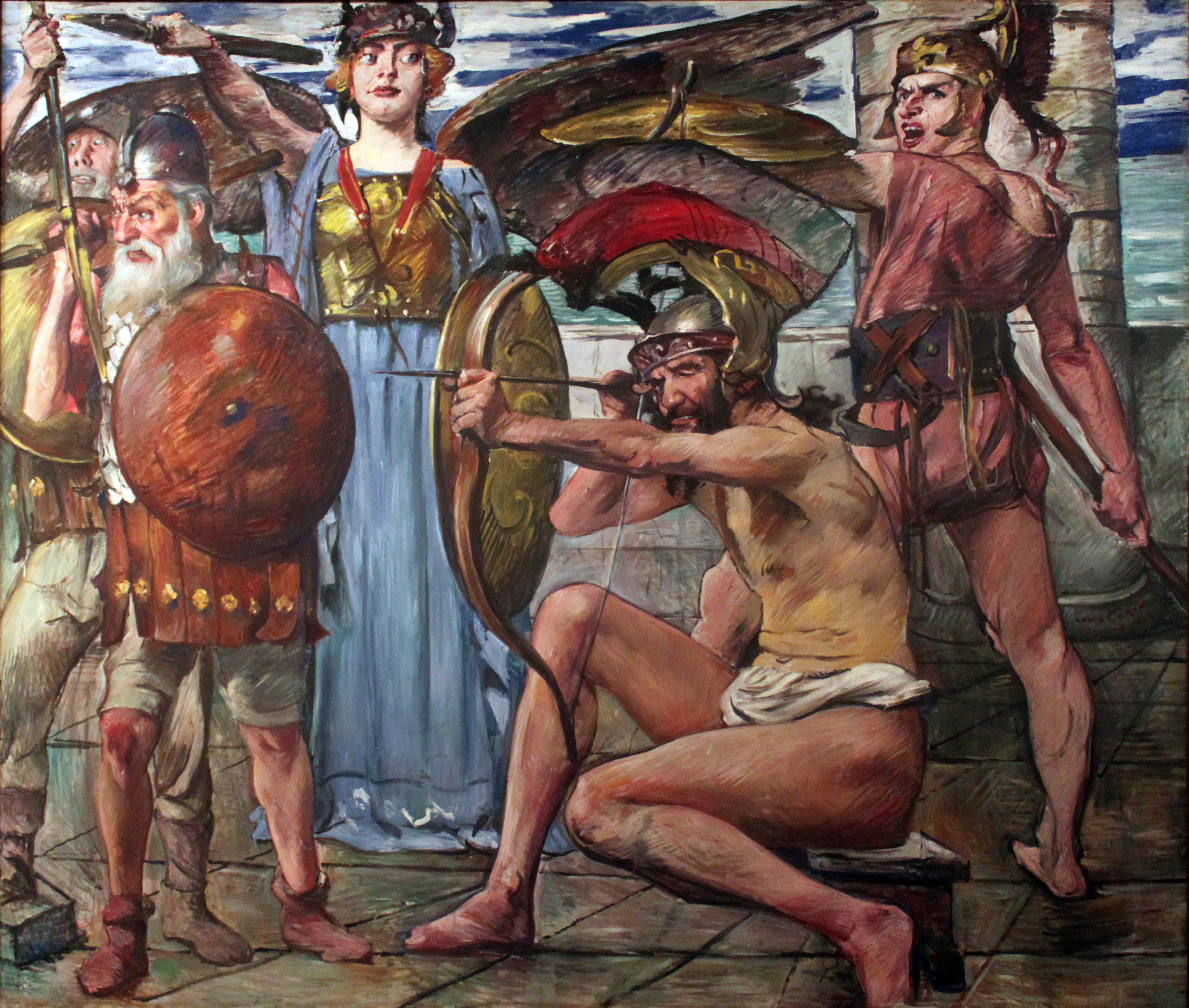 Wall decoration for the villa Katzenbogen (Odysseus in the battle with the suitors); Berlinische Galerie